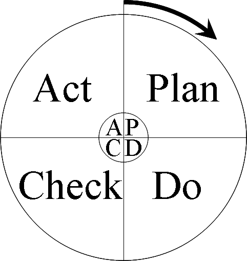 PDCA (aka the Deming Cycle, Shewhart cycle, or Deming Wheel) is an iterative four-step quality control strategy.